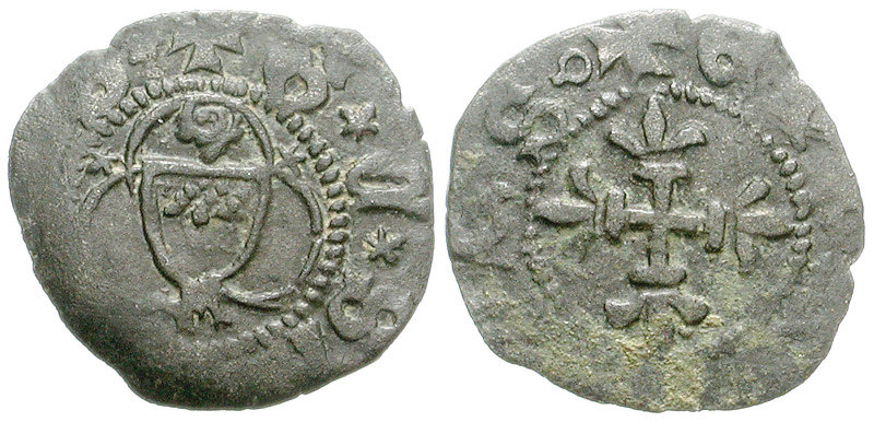 Switzerland, Waadt (Vaud). Évêché de Lausanne. Georges de Saluces (a.k.a. Giorgio di Saluzzo), Bishop, 1440-1461 (previously Bishop of Aosta 1433 - 1440). BI Denier (14mm, 0.86 g, 10h). Struck 1440-1457. + G * D * SA[LVCII]S, arms of Saluces within trilobe + ЄPS [LAVN]ЄS, cross flourée. Dolivo 52; HMZ, Schweiz 1-507. VF.